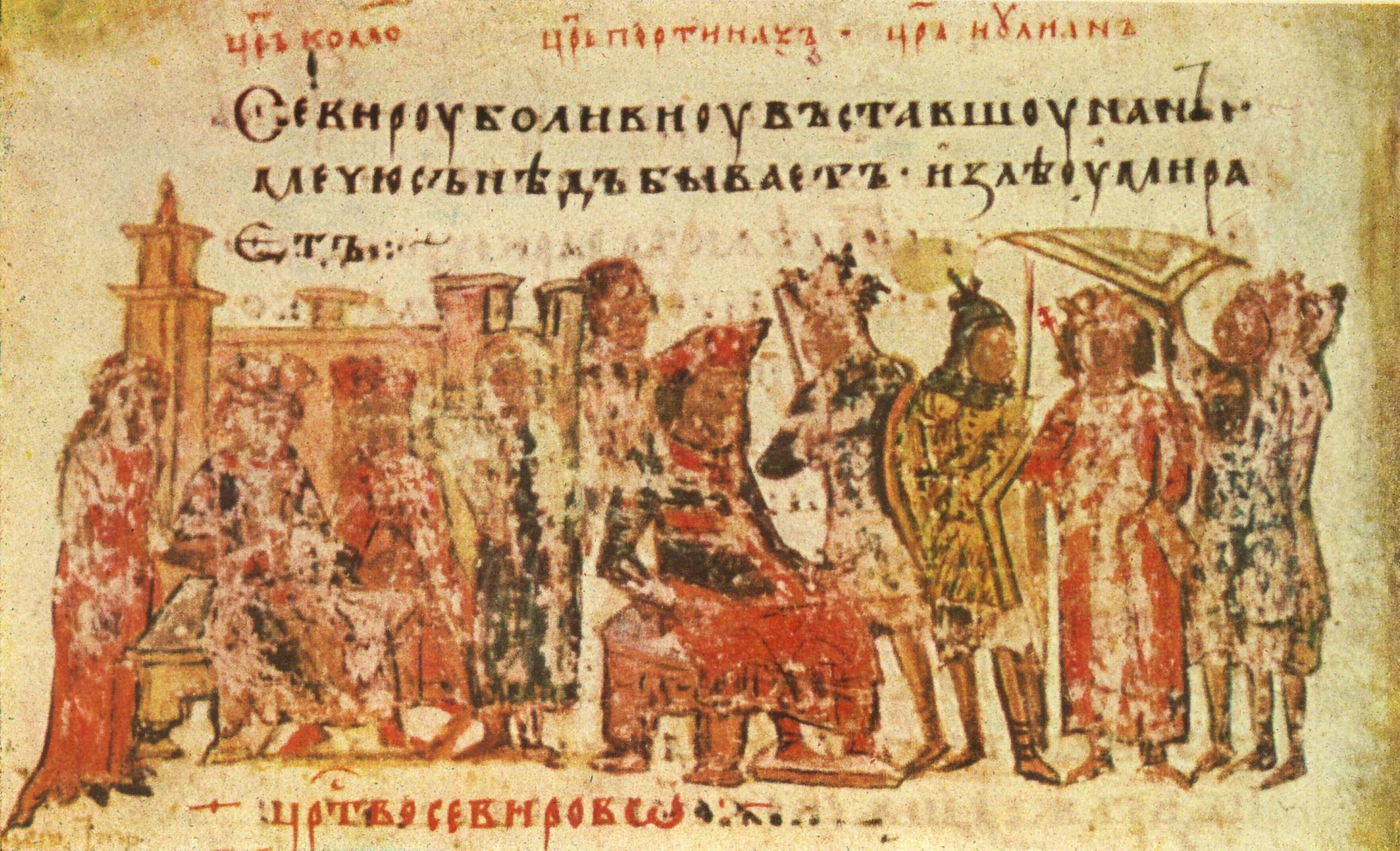 Miniature 27 from the Constantine Manasses Chronicle, 14 century: Roman emperors Commodus, Pertinax and Didius Julianus